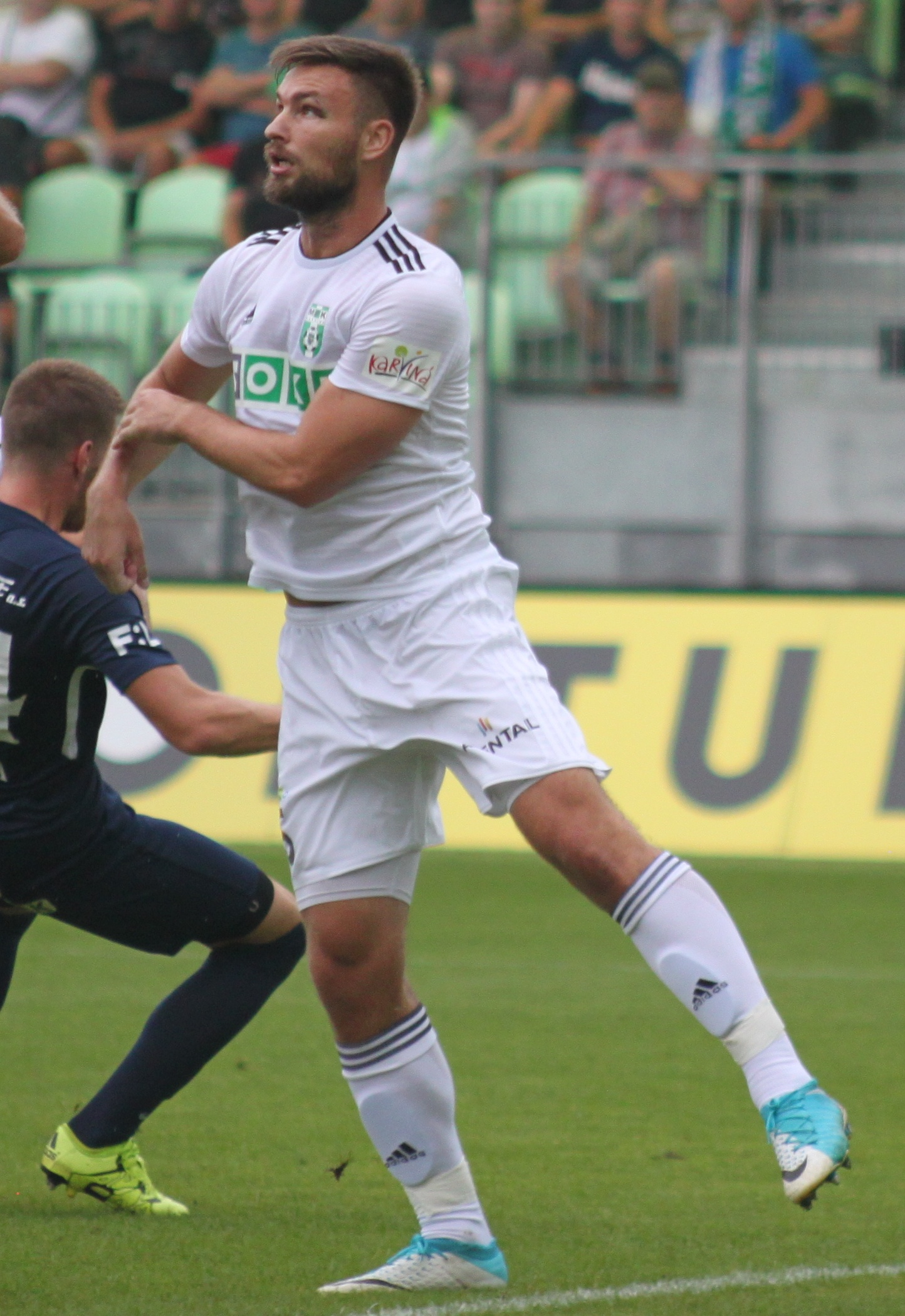 Aleš Mertelj during association football match MFK Karviná-1. FC Slovácko (2:1) on 2nd Semtemper 2018